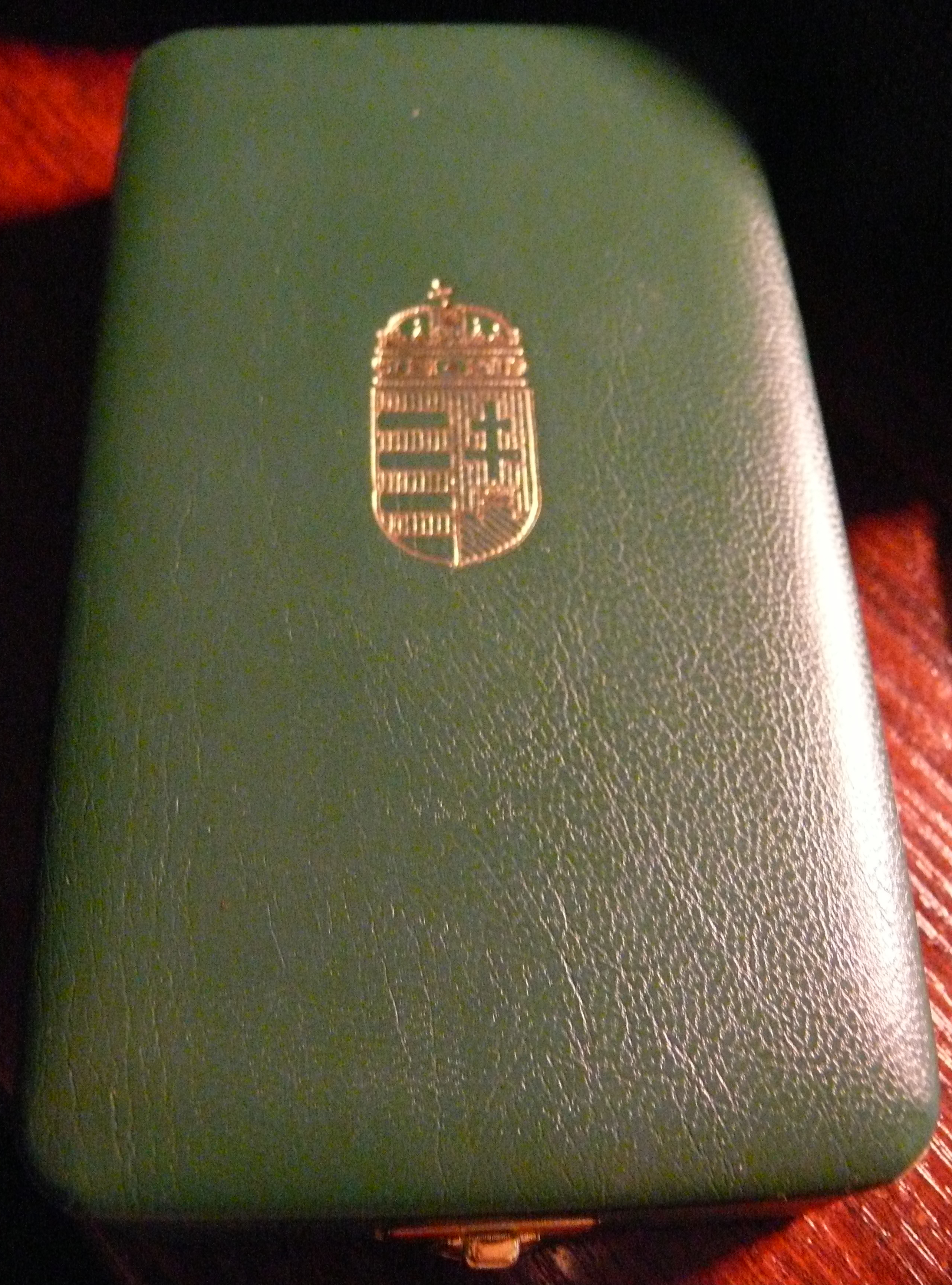 A hungarian medal